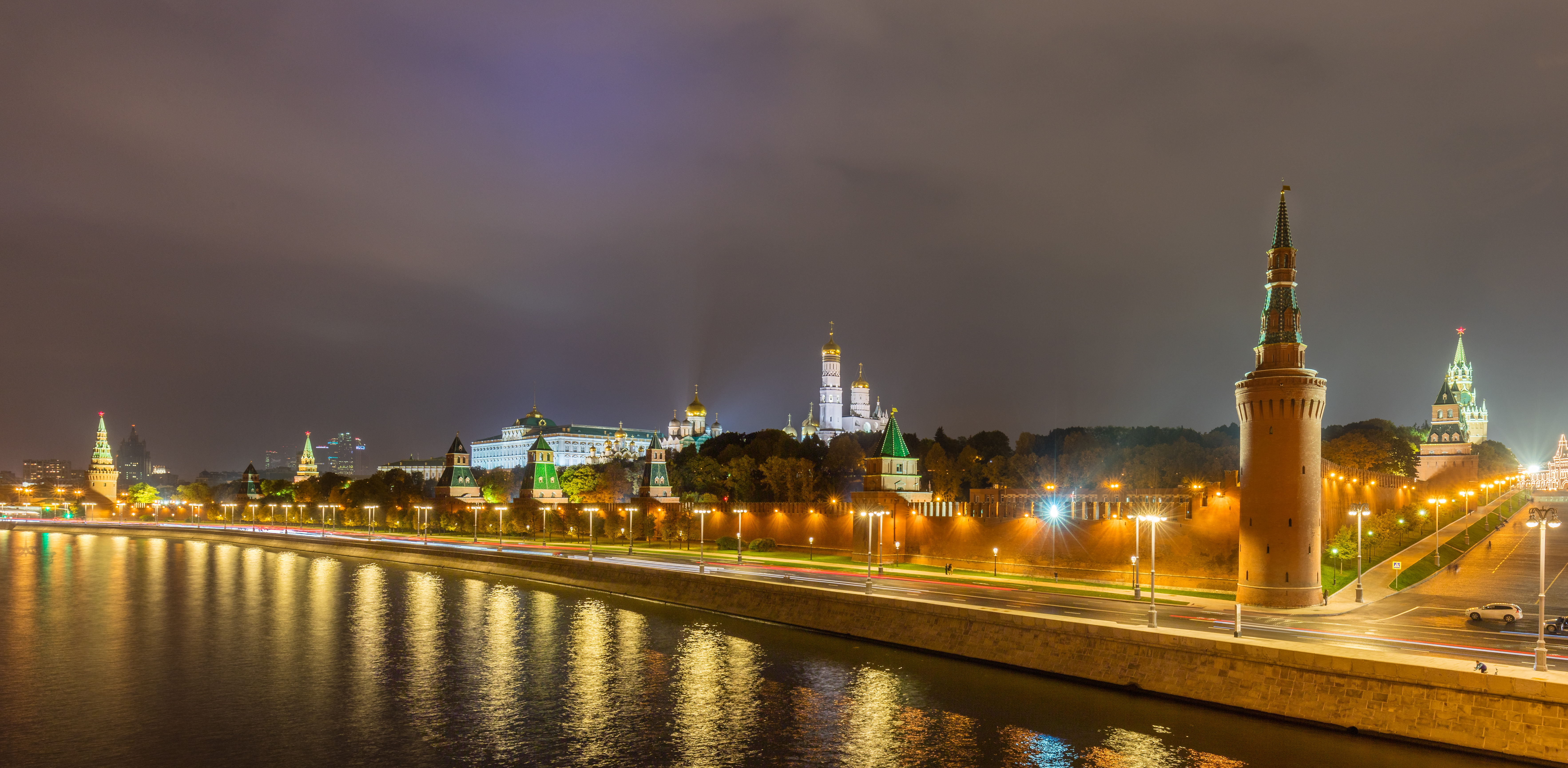 Night view of the Moscow Kremlin, meaning "fortress inside a city", a fortified complex in the center of Moscow, Russia. It is the best known of the kremlins (Russian citadels) and includes five palaces, four cathedrals, the enclosing Kremlin Wall with Kremlin towers and the Grand Kremlin Palace, former Tsar's Moscow residence. The complex now serves as the official residence of the President of the Russian Federation.